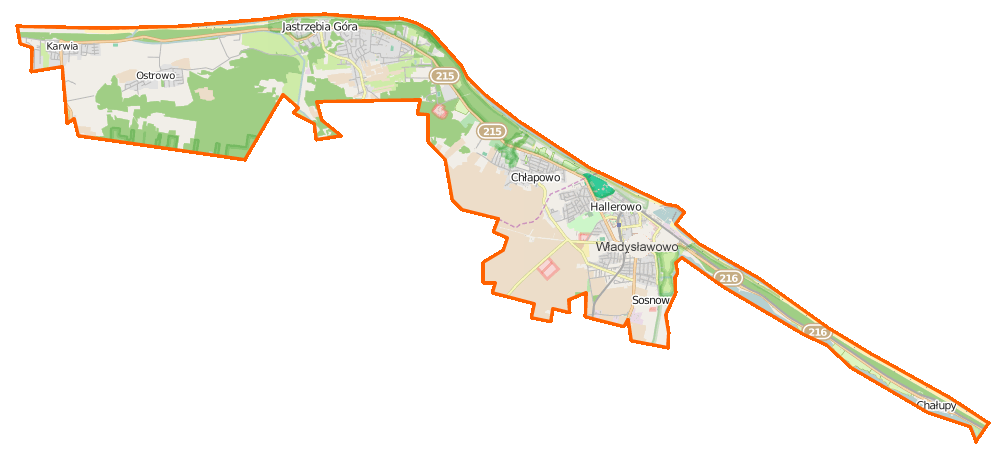 Map of Gmina Władysławowo, Poland This map of Władysławowo (gmina) was created from OpenStreetMap project data, collected by the community. This map may be incomplete, and may contain errors. Don't rely solely on it for navigation.